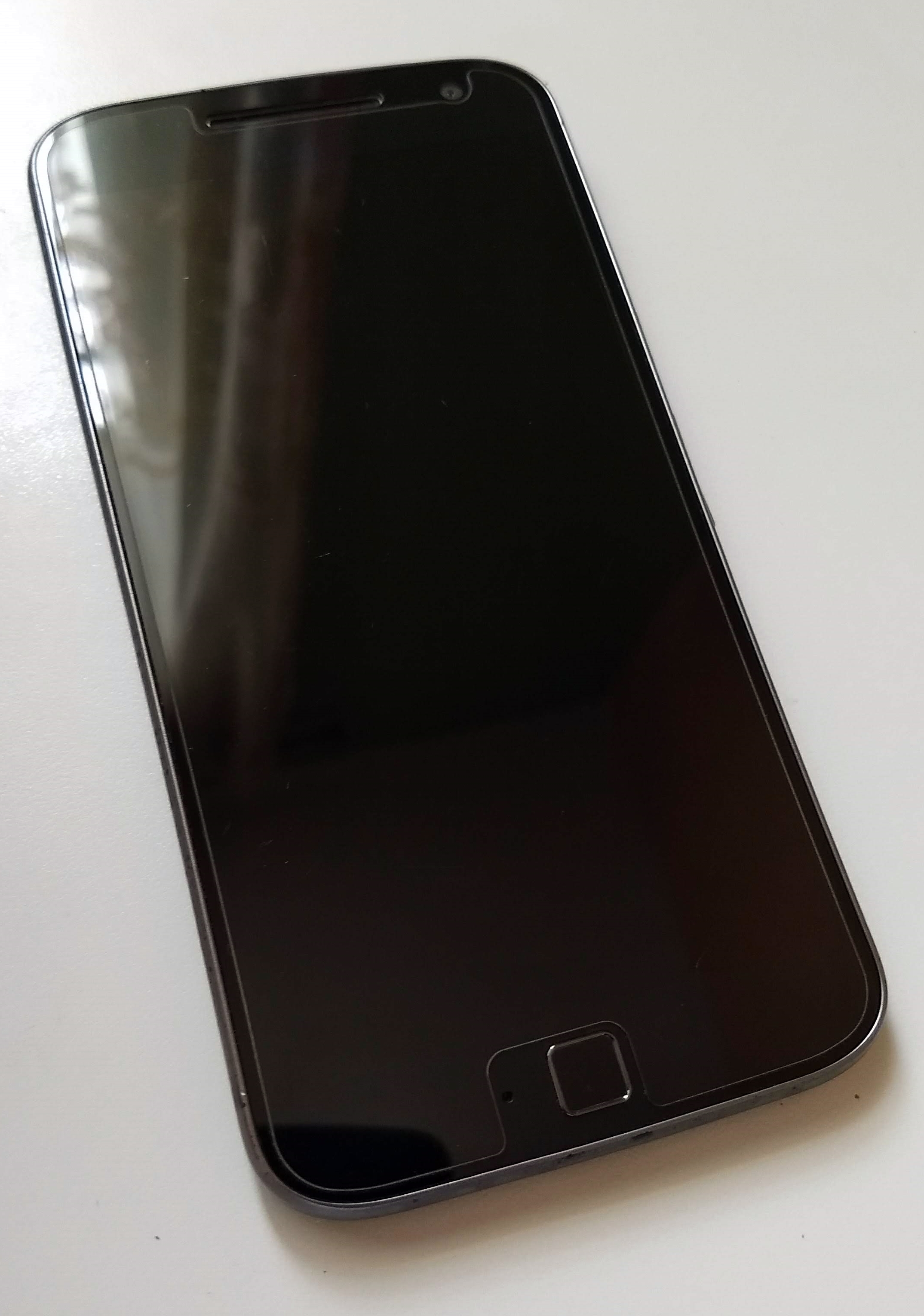 Moto G4 Plus XT1641 LATAM Model